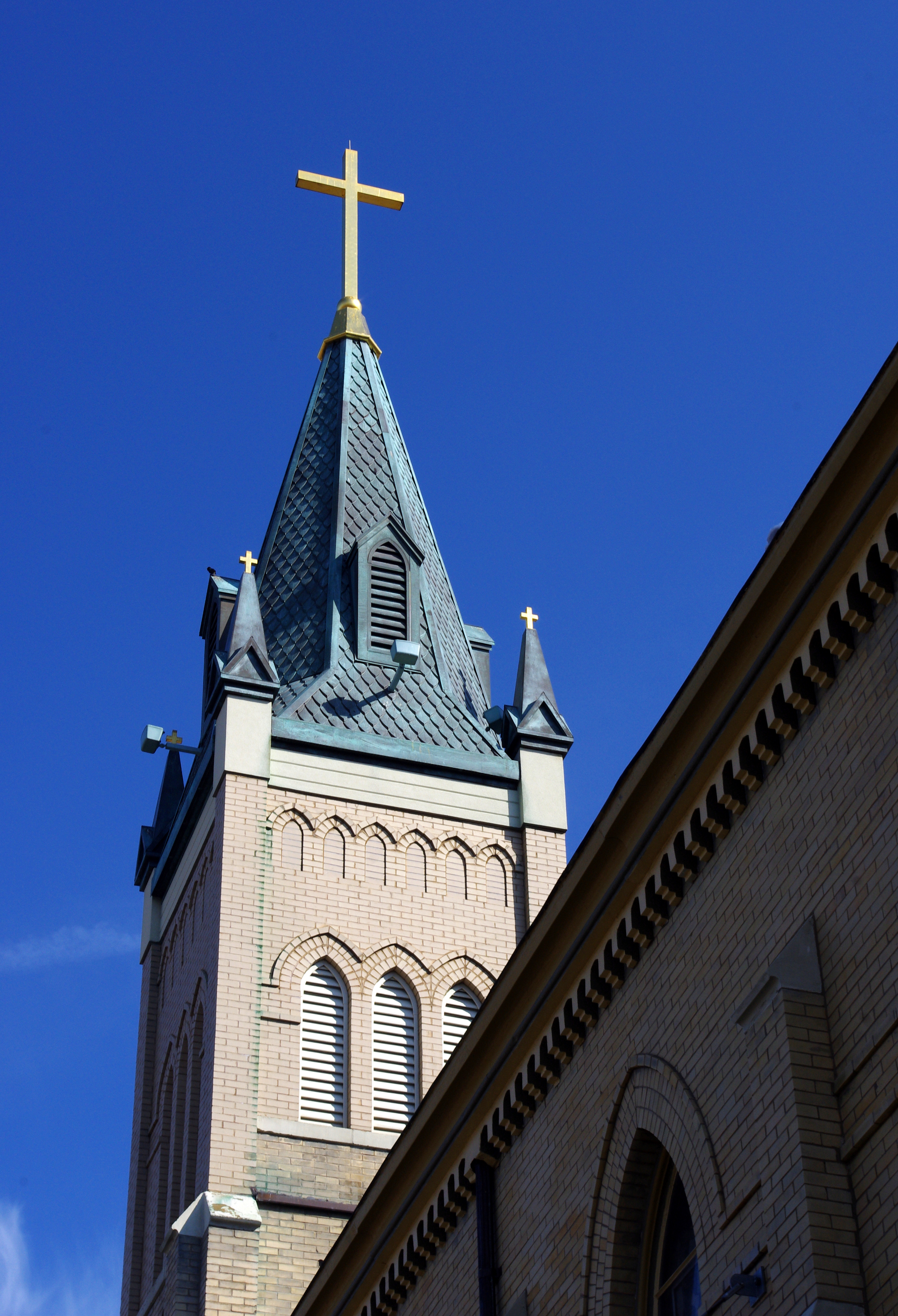 Saint John the Baptist Italian Catholic Church (Columbus, Ohio) - exterior, tower